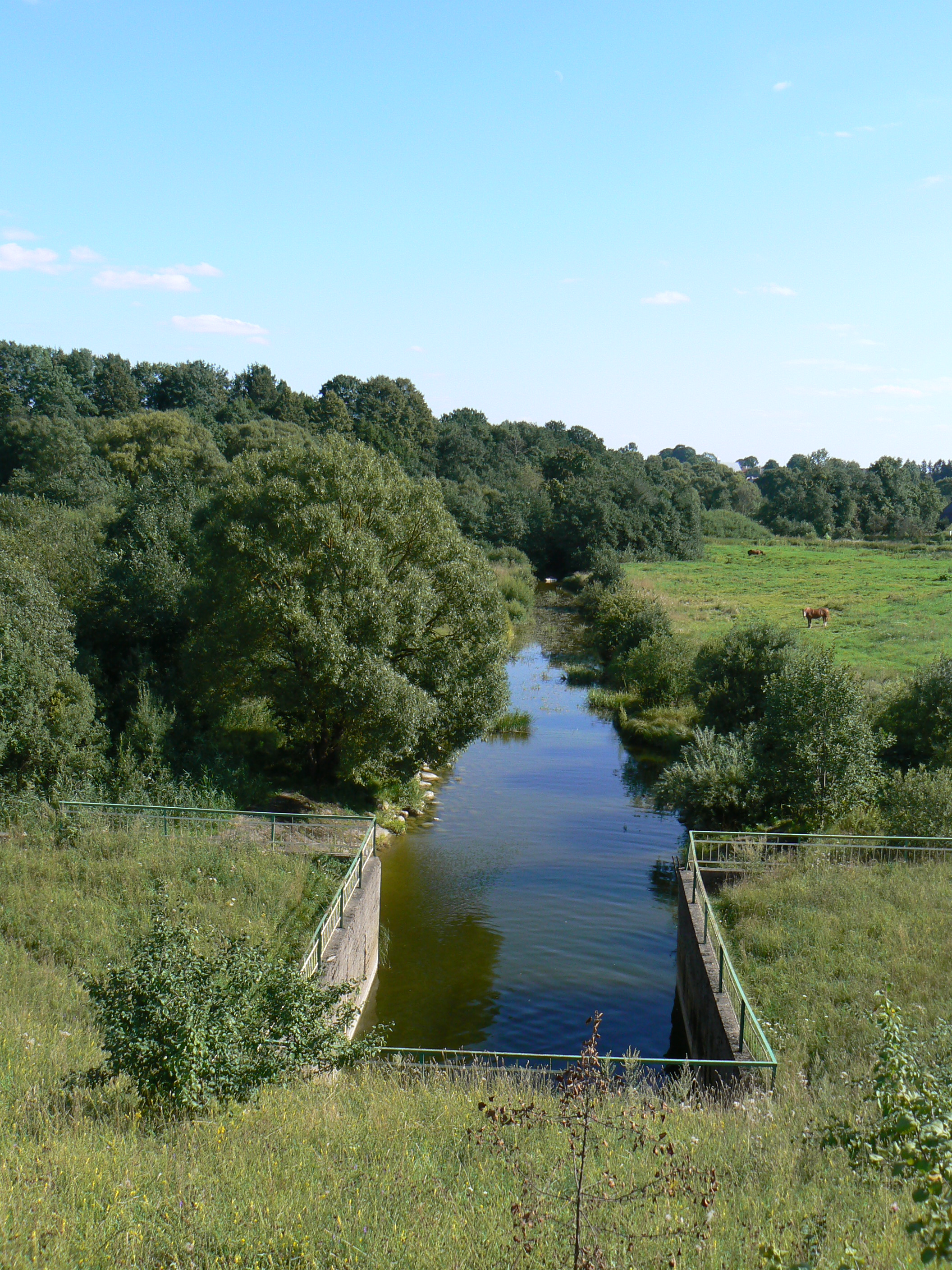 Šustis from dam of Žemaičių Naumiesčio tvenkinys